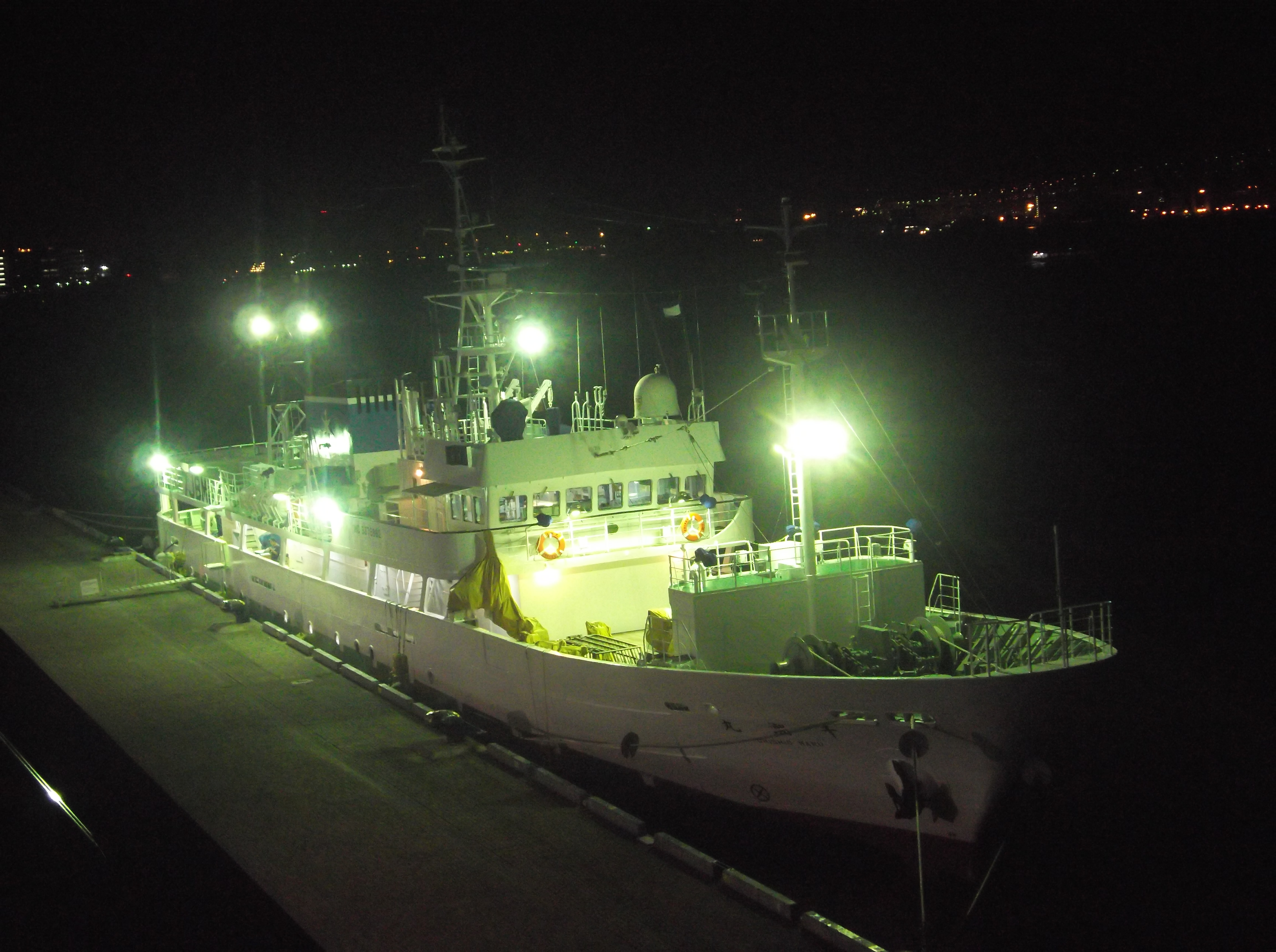 Chishio maru, a fishery training vessel of Chiba Education Bureau, at the Osanbashi Pier of Yokohama Port